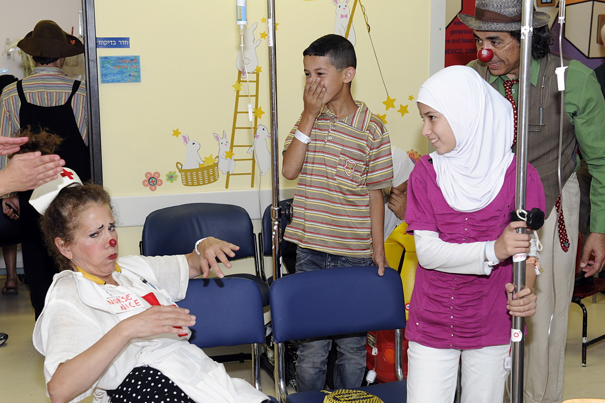 Medical clown Hilary Chaplain at Shaare Zedek hospital_No.141